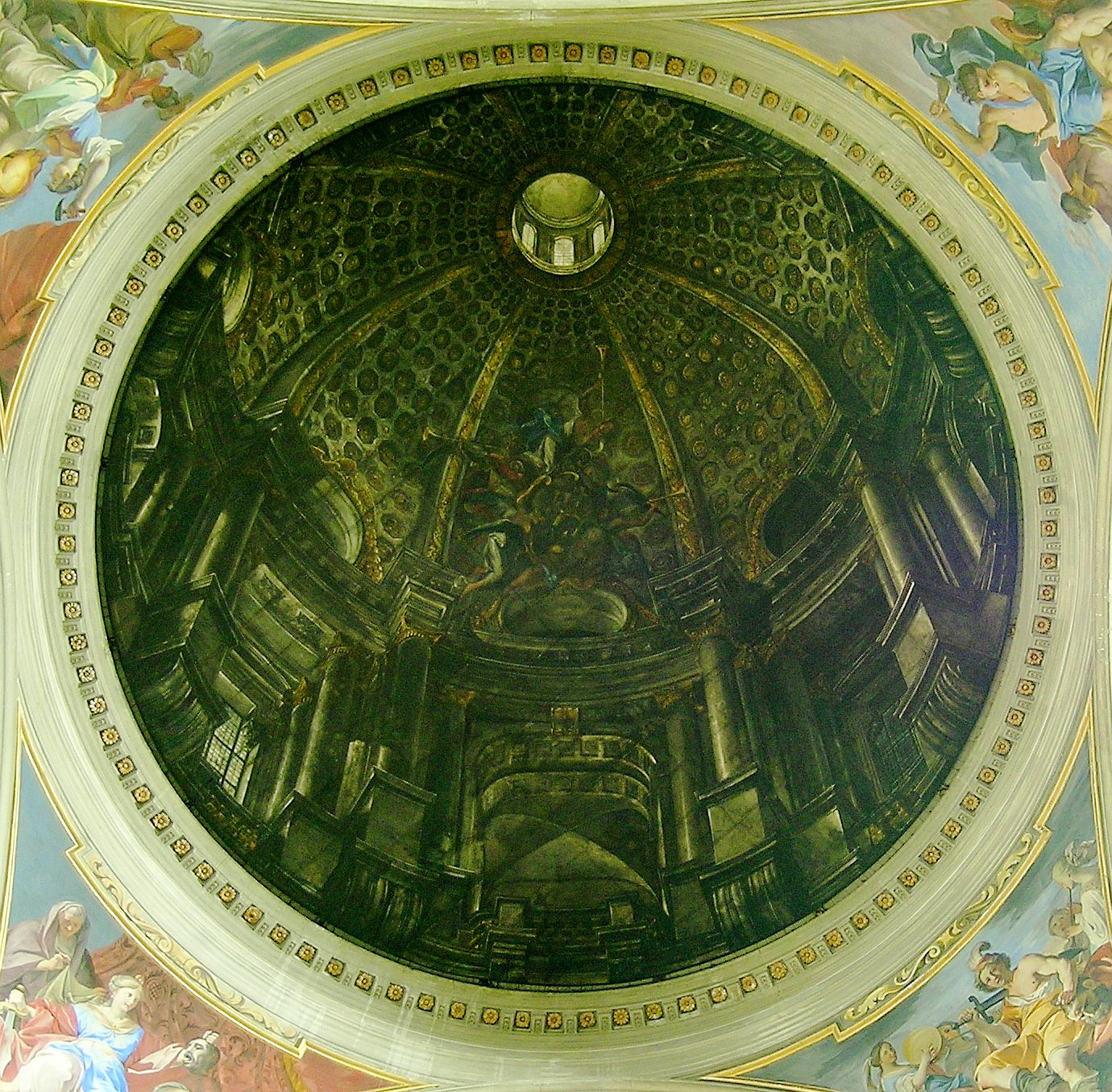 painted dome in the church of Sant'Ignazio, Rome.